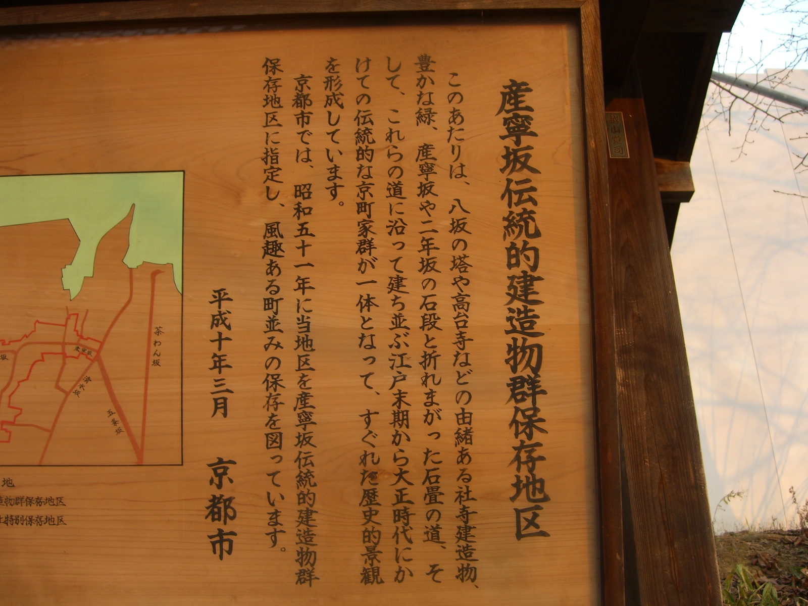 This is the photo of "Sanneizaka Preservation District" near Gion area, taken by the uploader himself.